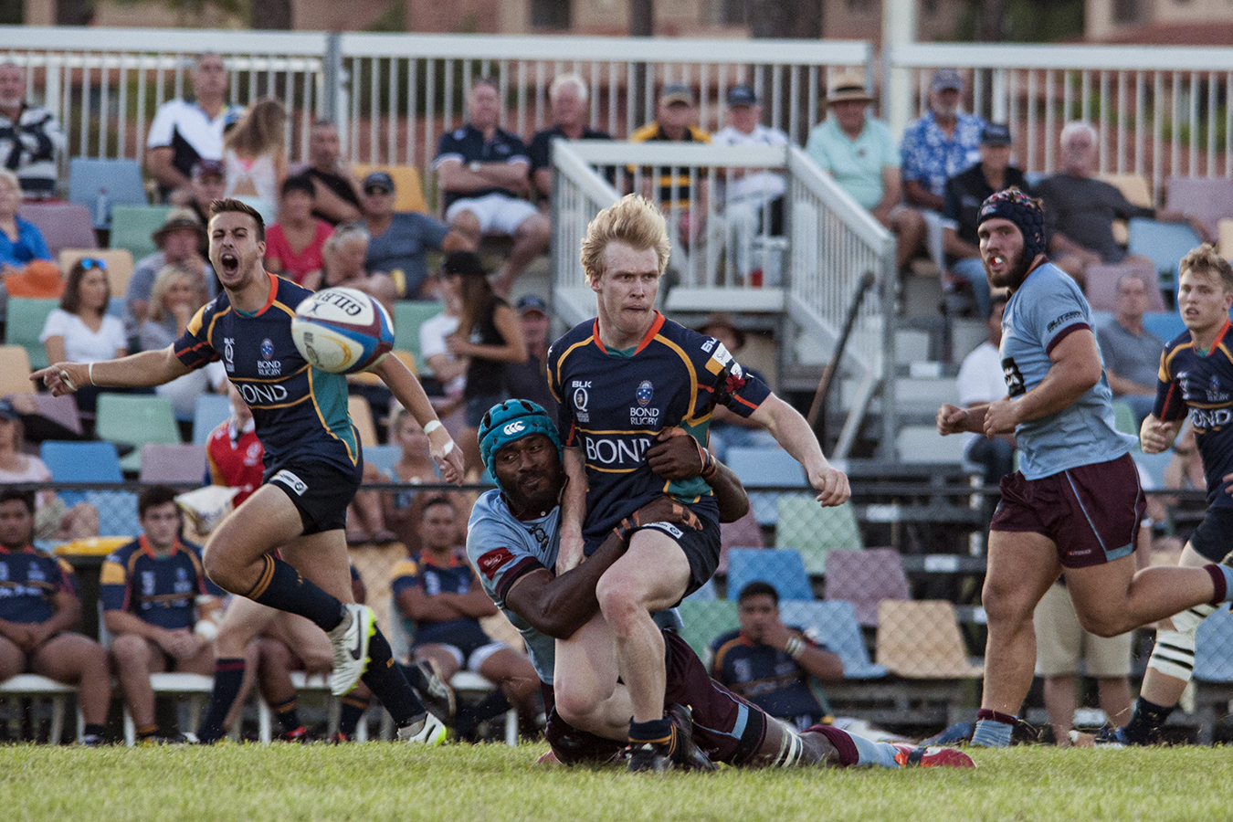 Bond University (wearing navy blue jerseys) plays Norths (North Brisbane Rugby Club, wearing sky blue) in the Queensland Premier Rugby competiton at Bond University Rugby Field on Anzac Day in 2015.